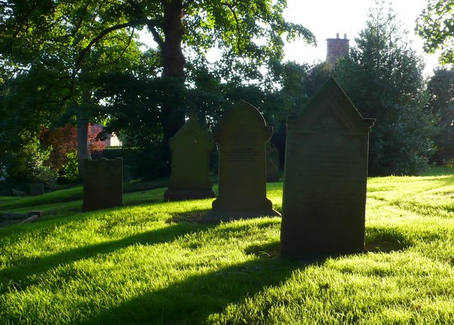 St Mary's Longnewton Graves in the churchyard of this small church